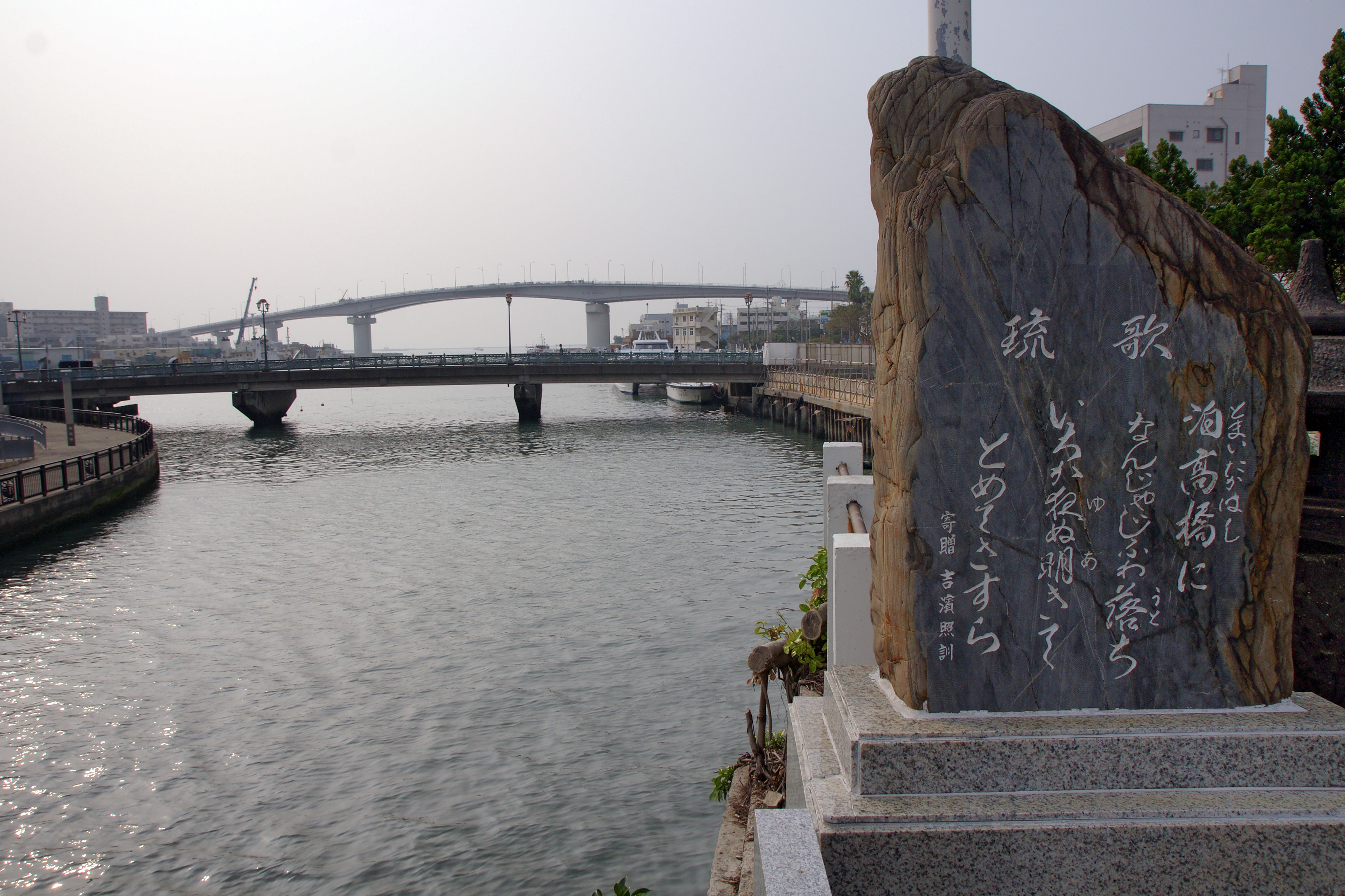 Tomari Wharf of Naha Port, Naha, Okinawa prefecture, Japan